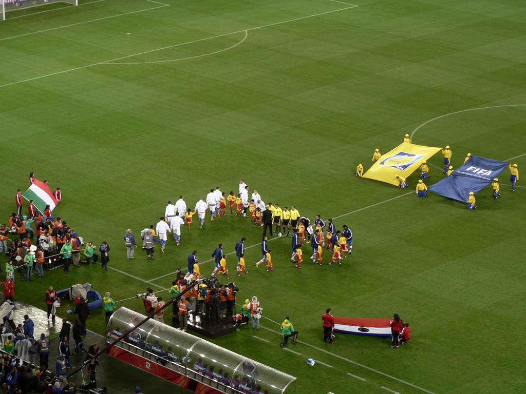 Teams on the pitch before the kick-off of the game between Italy and Paraguay at FIFA World Cup 2010, 14 June 2010, Green Point Stadium, Cape Town